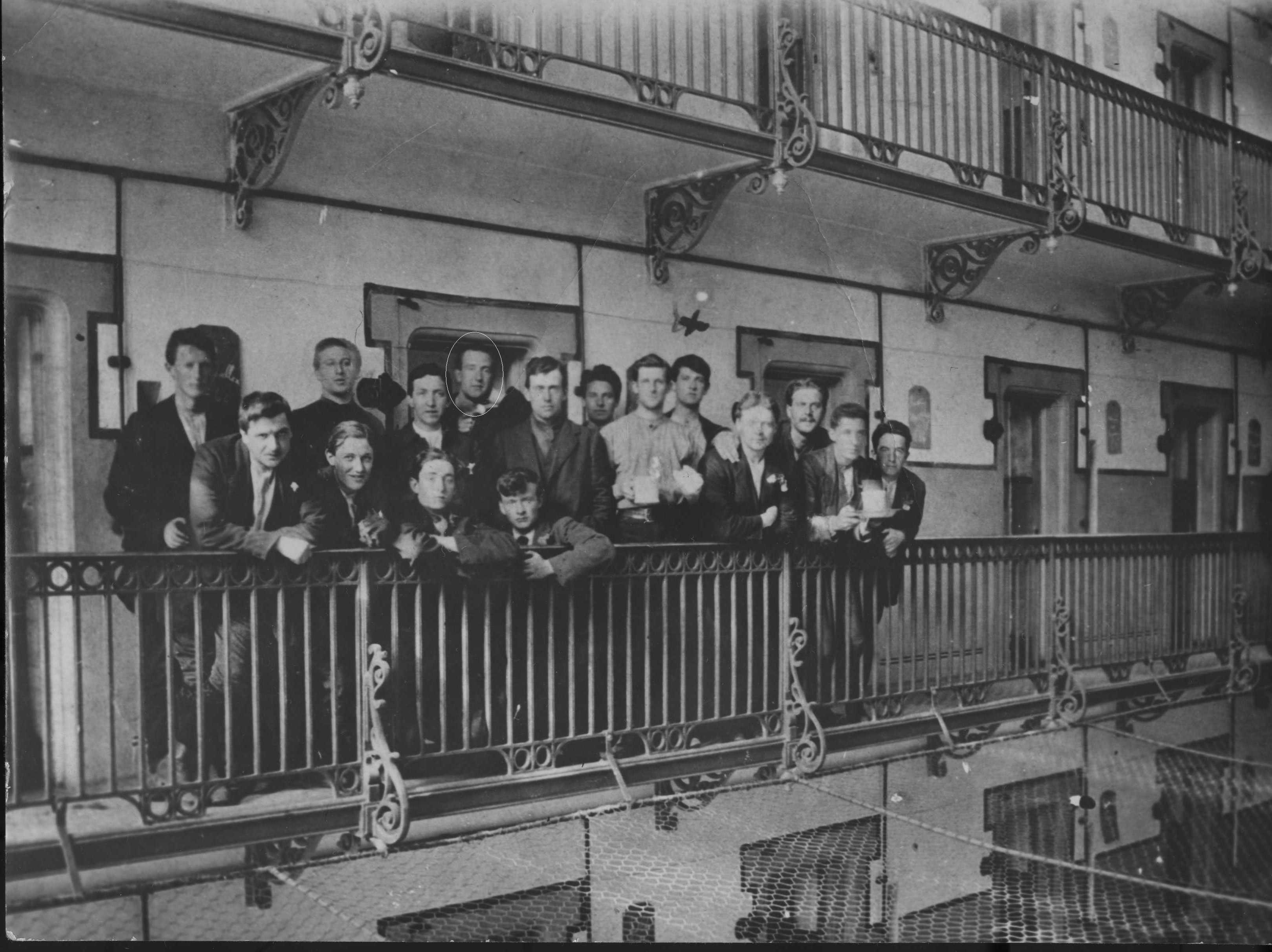 Captured Irish soldiers in Stafford Gaol after the failed 1916 Easter Uprising. Michael Collins marked with an 'x.’